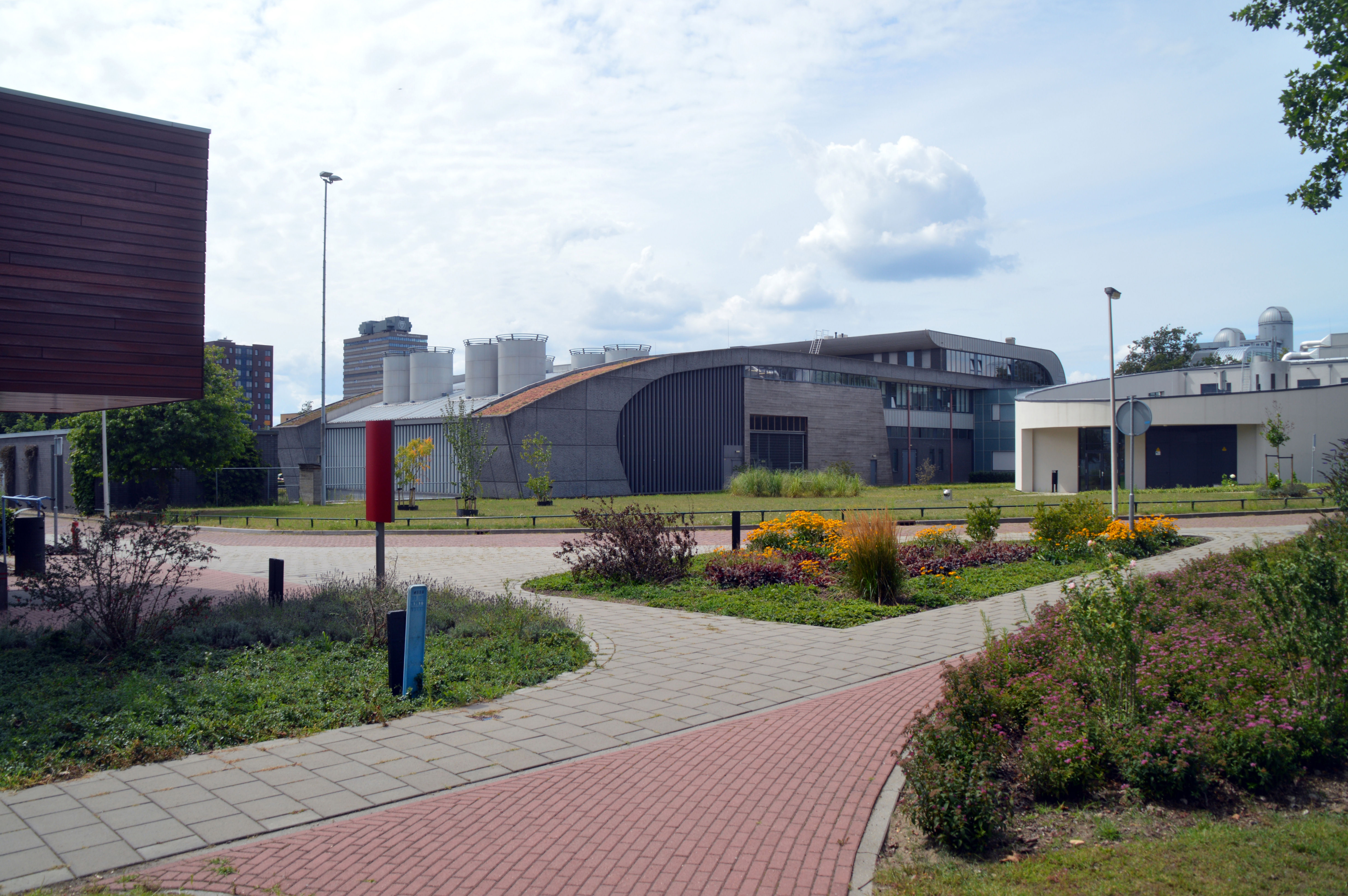 NanoLab Nijmegen Huygens building Radboud University Nijmegen